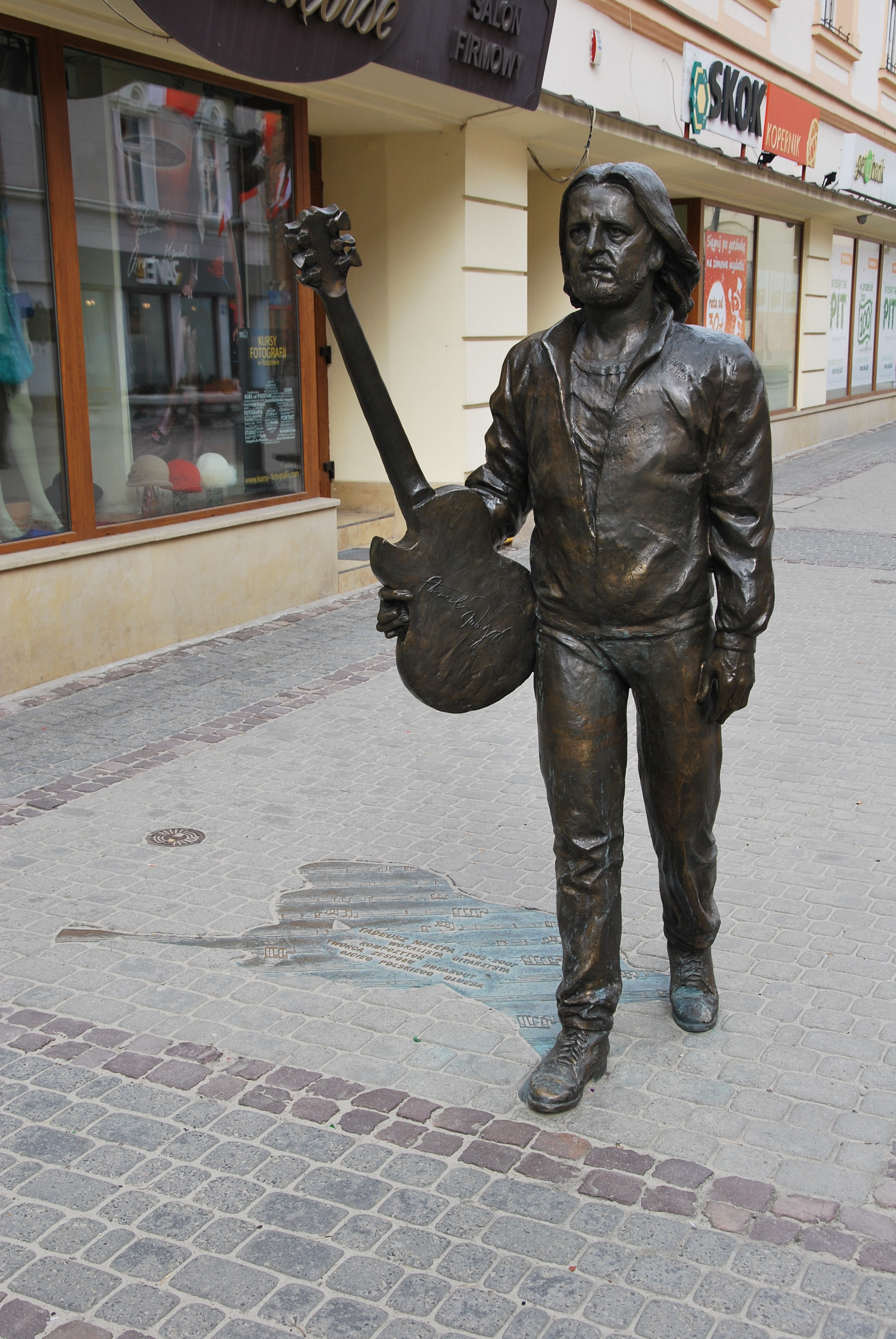 Tadeusz Nalepa monument, Rzeszów 3 Maja Street